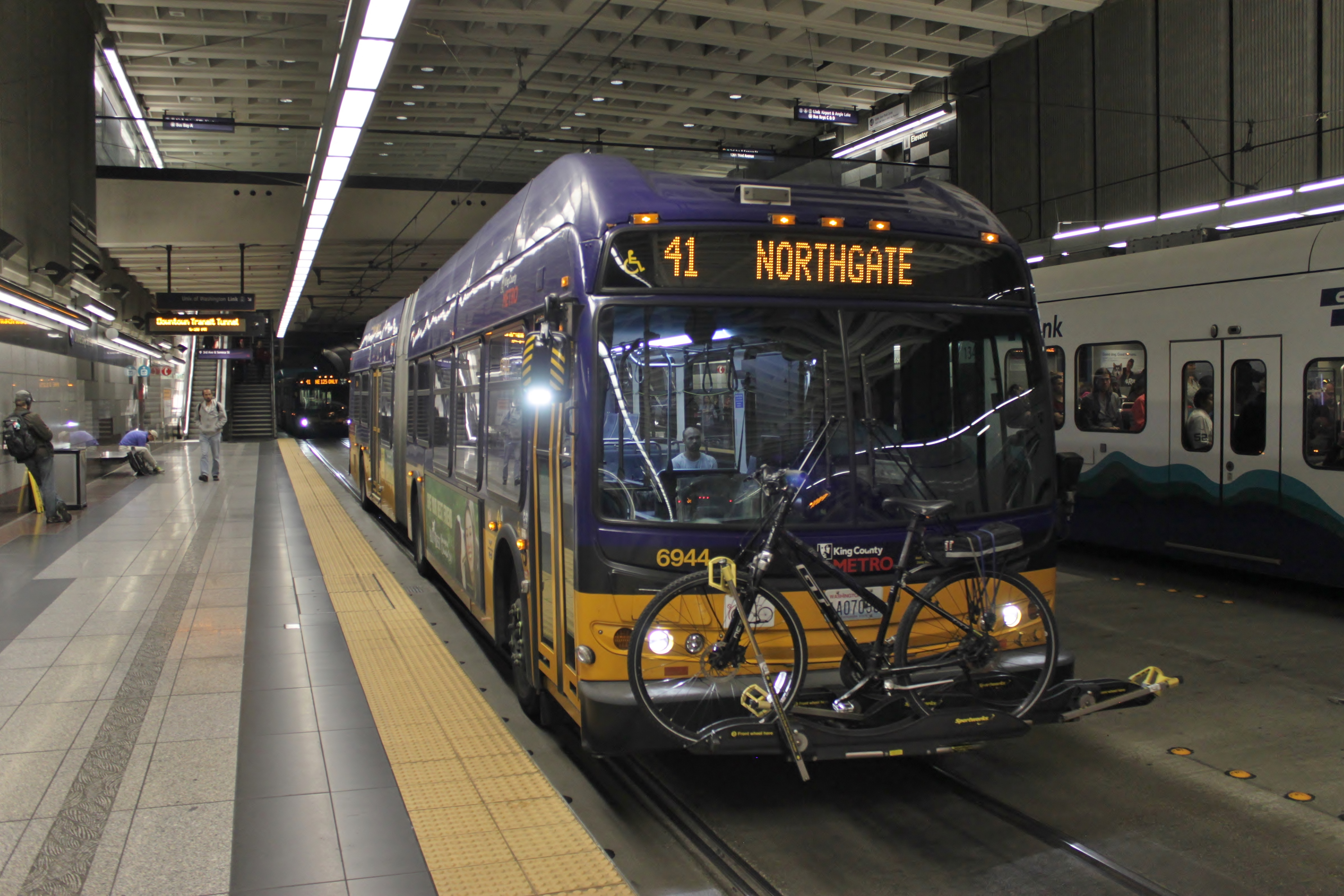 King County Metro 6944, a New Flyer diesel-electric hybrid articulated bus, on route 41 in the Downtown Seattle Transit Tunnel. A second bus on the same route can be seen in the background.